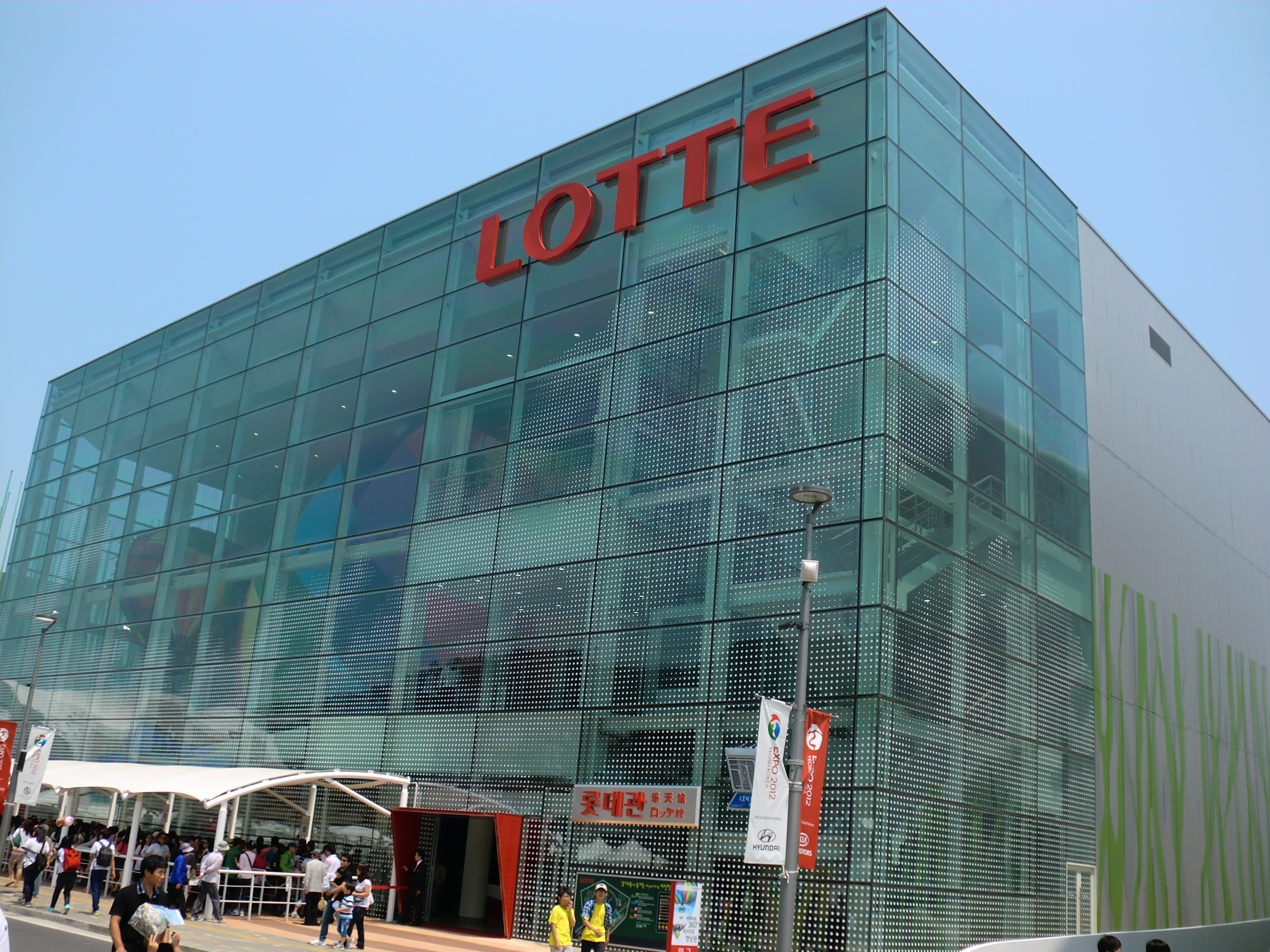 Expo 2012 Lotte pavilion